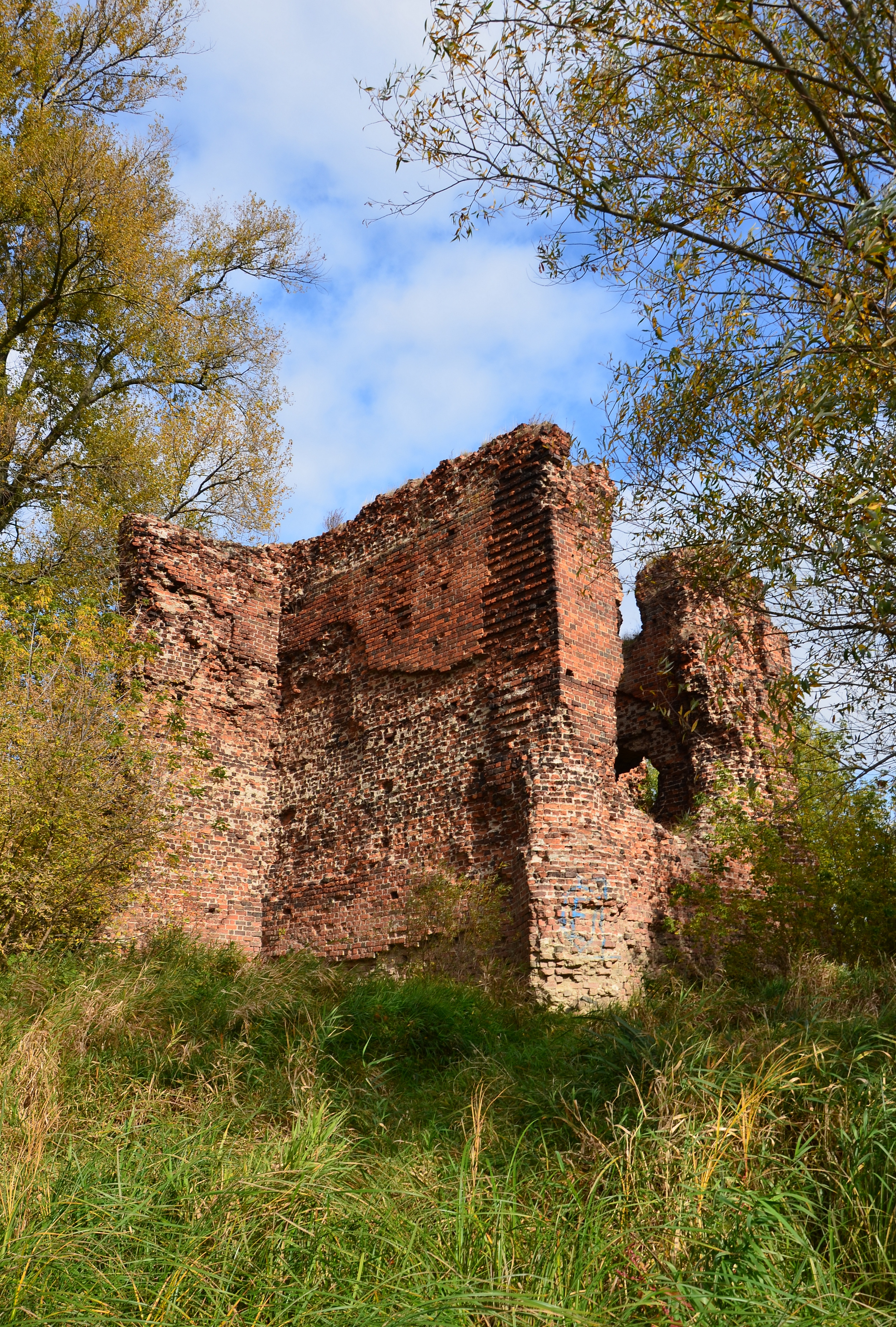 Złotoria, castle ruins